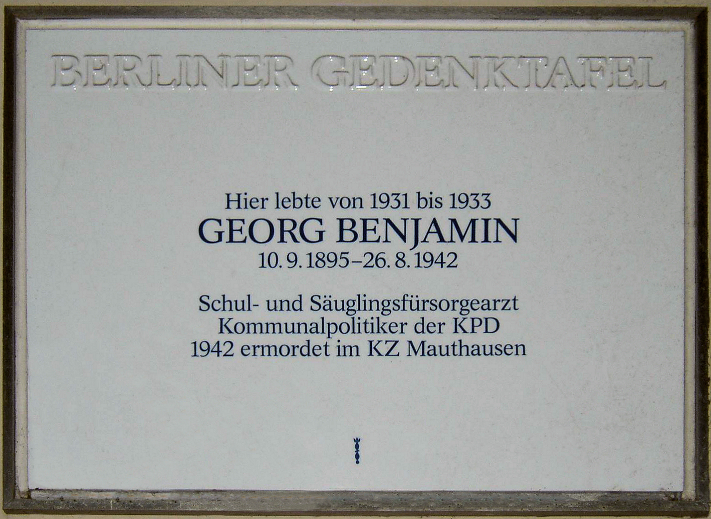 Berlin memorial plaque, Georg Benjamin, Badstraße 40, Berlin-Gesundbrunnen, Germany Koordinate:52°33′13″N 13°22′41″E / 52.55361°N 13.37806°E